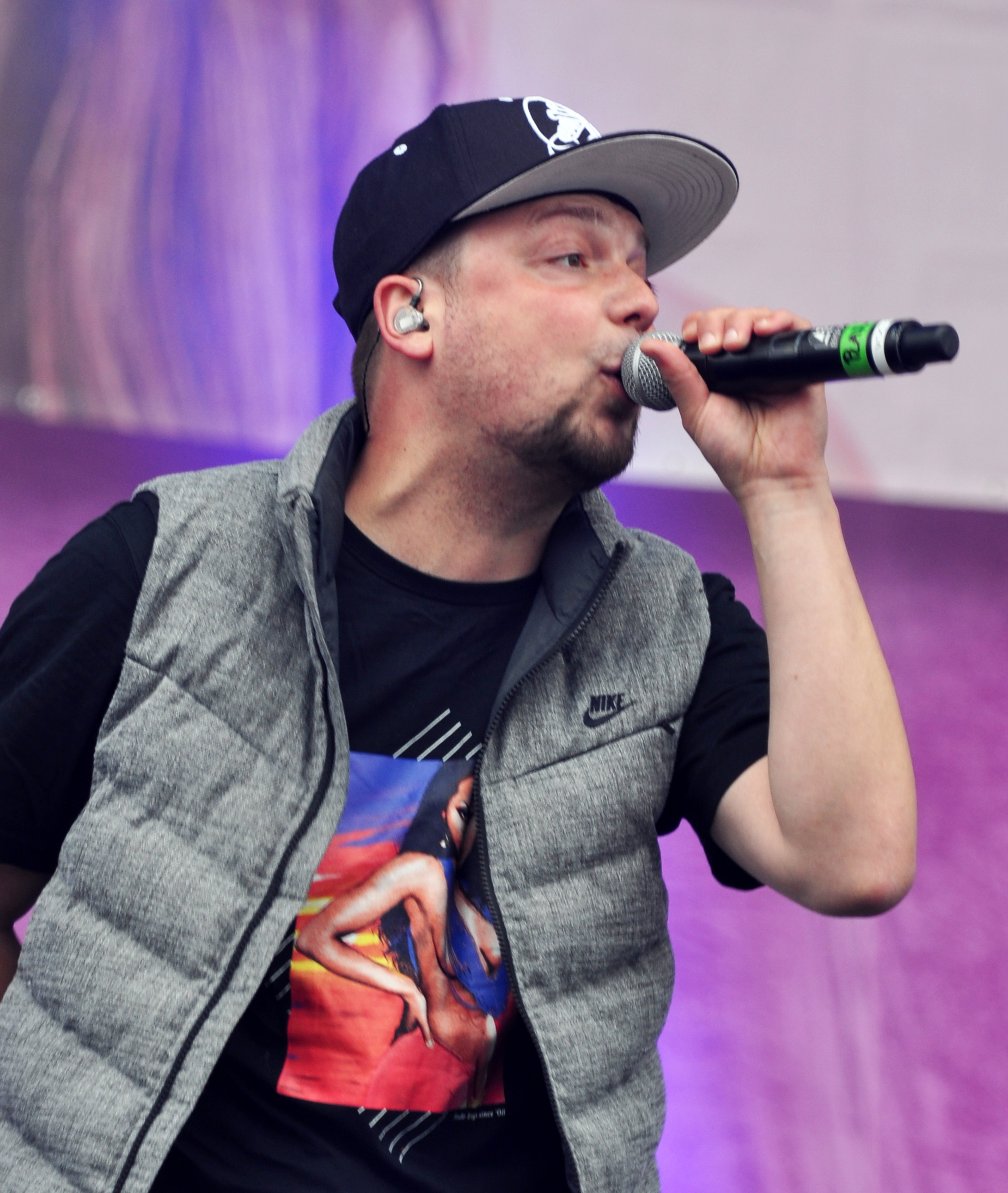 Rapper Bartek from Die Orsons at Rock am Ring 2013